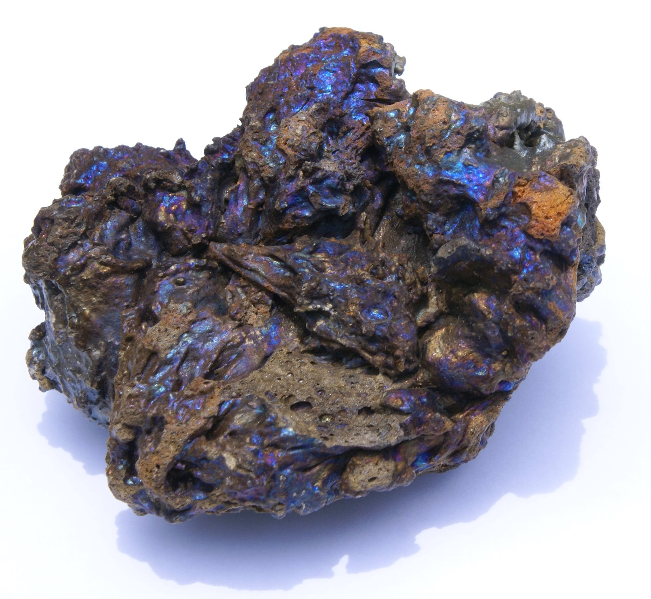 Basaltic scoria (about 8 cm large) coming from Amsterdam island ; blue iridescent color could be caused by interferences phenomenon in a thin and smooth layer of hematit (Fe2O3)